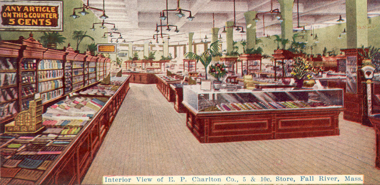 Post card depicting the interior of the E. P. Charlton & Company's new store in Fall River, Massachusetts.